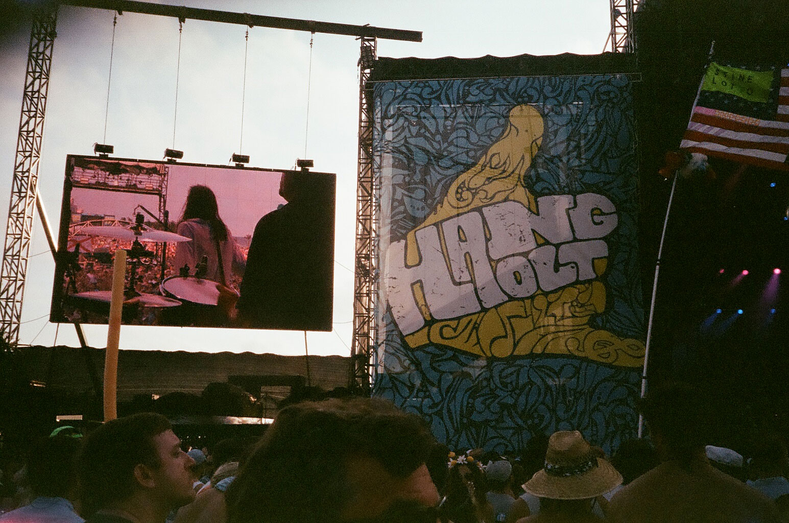 The Black Crowes perform at the Hangout Stage at the 2013 Hangout Music Festival.